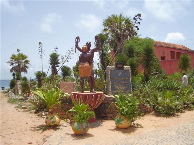 House of Slaves Gorée, Senegal